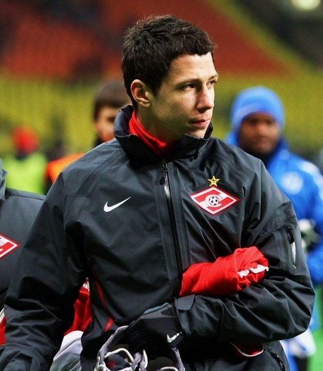 Marek Suchý